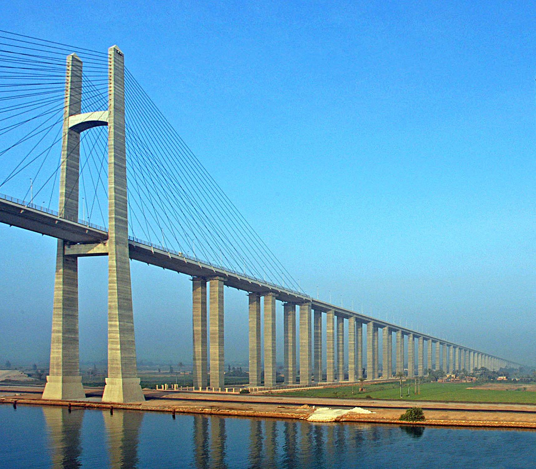 Suez Canal (June 27, 2004) - Photo taken while transiting the Suez Canal aboard the amphibious assault ship USS Kearsarge (LHD 3). Kearsarge is surge deployed to transport elements of the 24th Marine Expeditionary Unit (MEU) to the Central Command Area of Responsibility (AOR) in support of Operation Iraqi Freedom (OIF) and the global war on terrorism. U.S. Navy photo by Photographer’s Mate Airman Kenny Swartout (RELEASED)